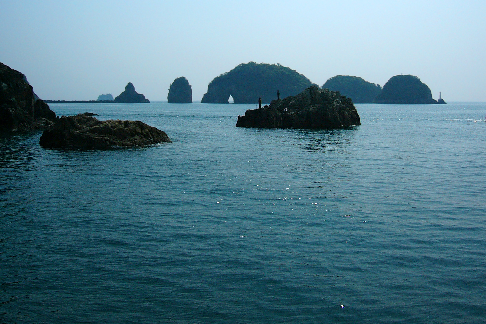 Ki-no-Matsushima, Nachikatsuura, Wakayama prefecture, Japan